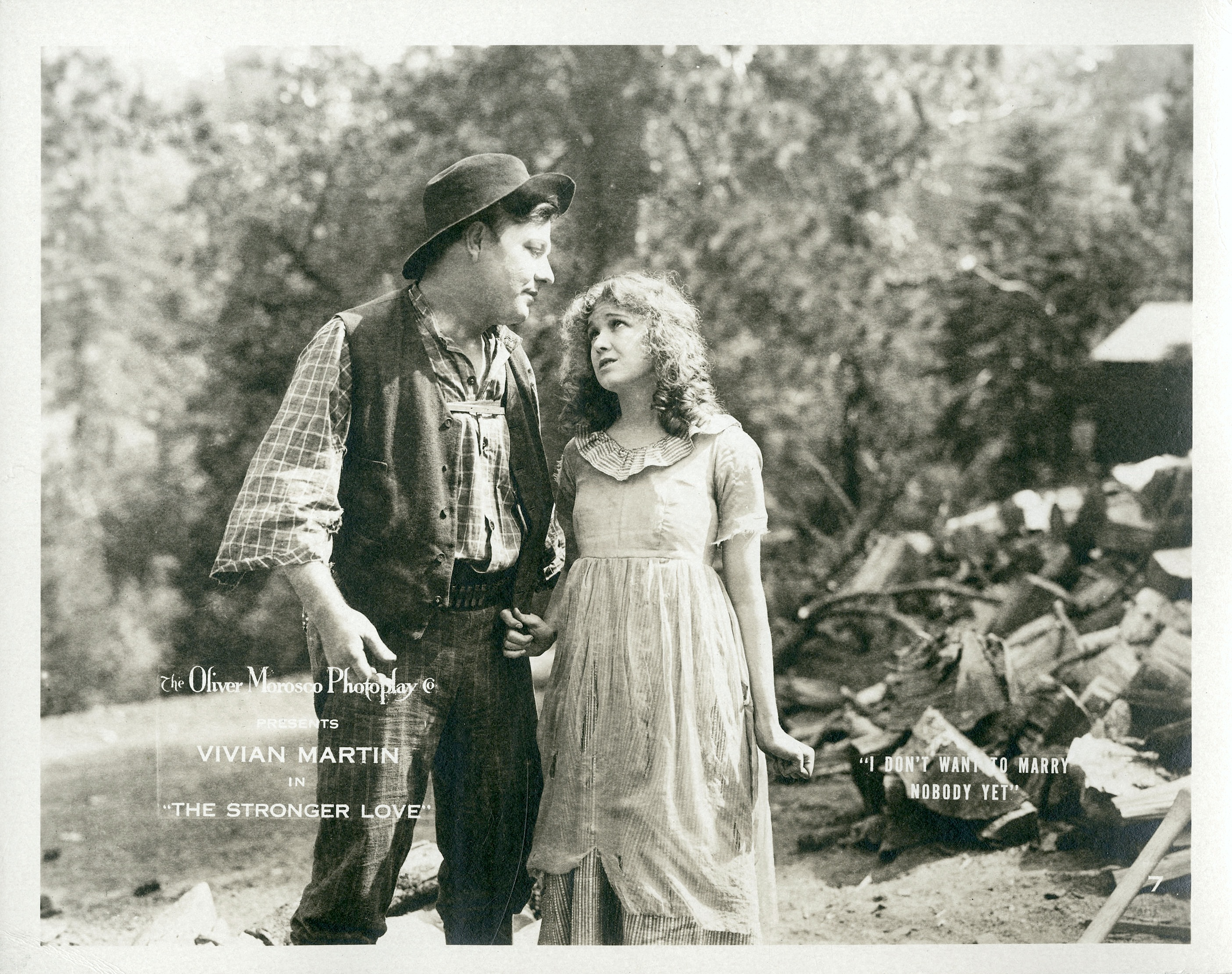 The Stronger Love is a 1916 American drama silent film directed by Frank Lloyd and written by Julia Crawford Ivers. This is a publicity photo for the film. The caption is, "I don't want to marry nobody yet."